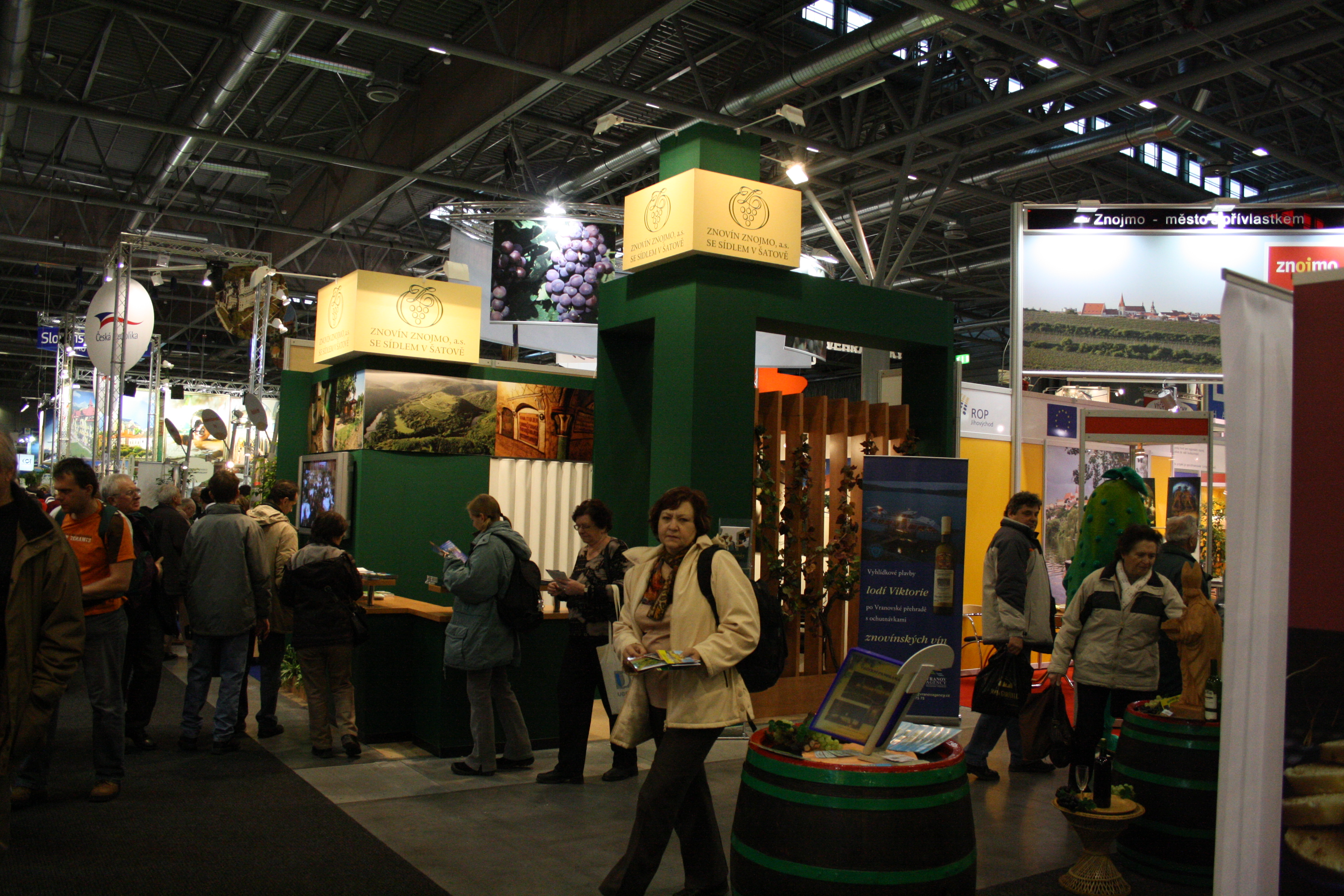 Presentation of various touristic destinations of Czech Republic.